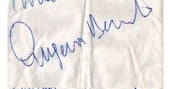 Sign of folk singer Eugenio Bennato